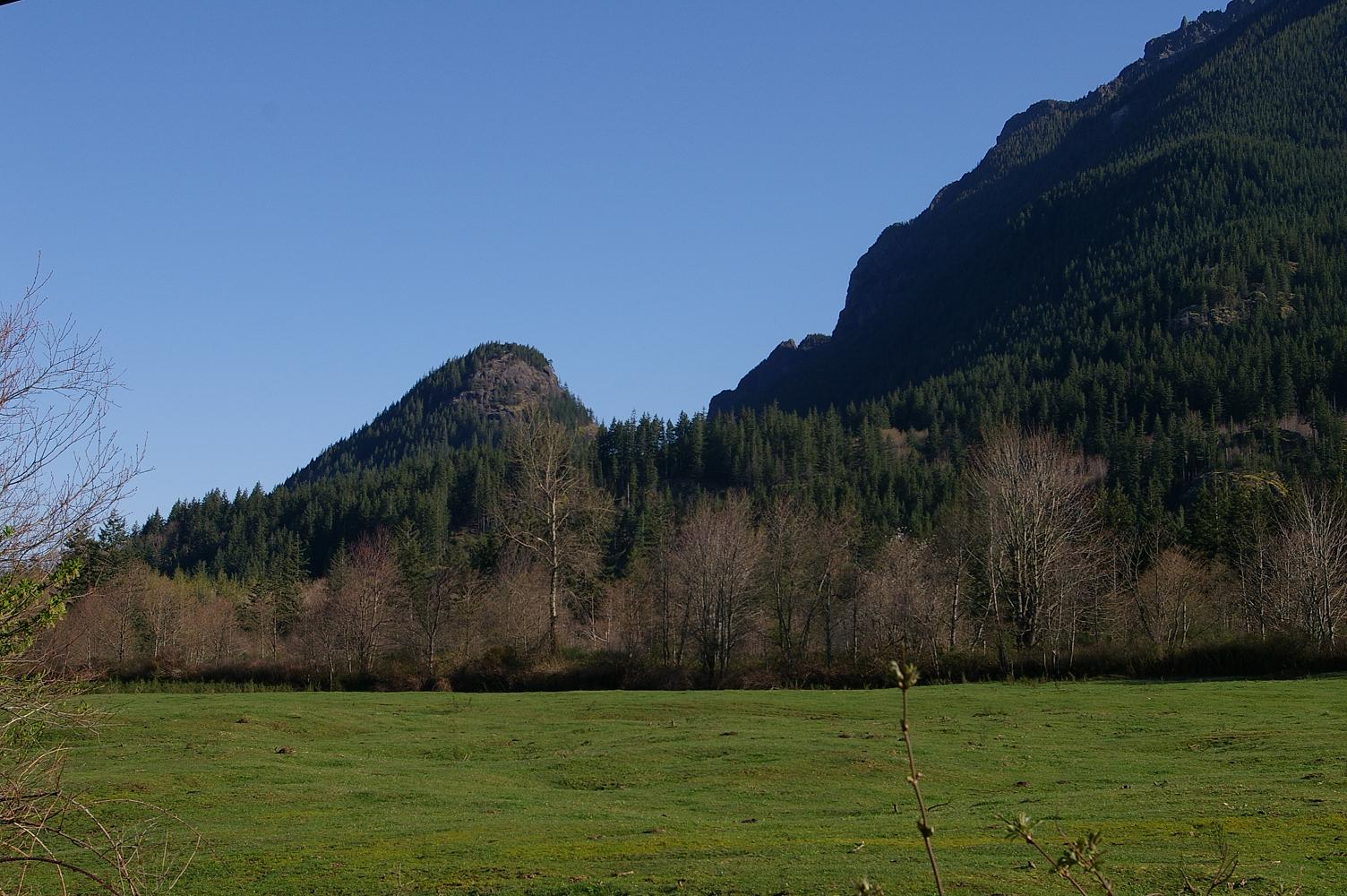 Little Si taken from North Bend Way, about 2 miles east of North Bend, WA. Mt. Si is the larger mountain on the right. This photo was shrunken 50% from the original. (CC) 2007 Konrad Roeder